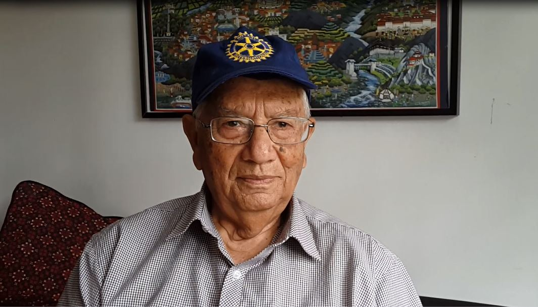 This photo was taken while Dada (Kamal Mani Dixit) was in England, four months before his death. He was in the middle of a video shoot for a taped message that he later sent for the Rotary Club of Patan.